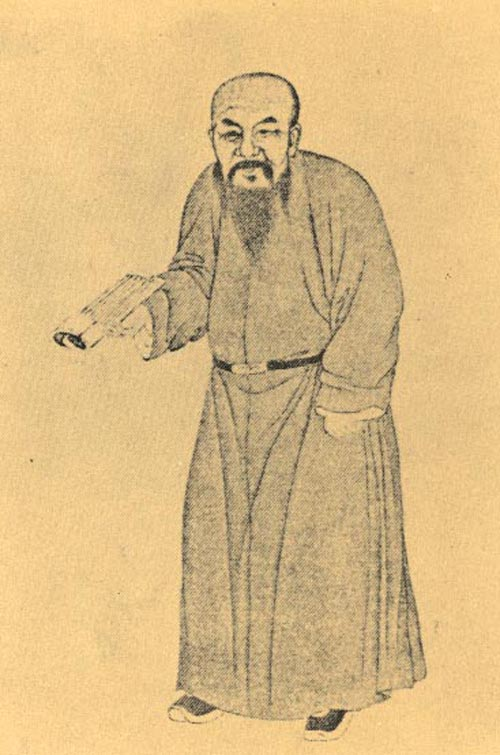 ZHOU Yongnian, politician and scholar of the Qing Dynasty.